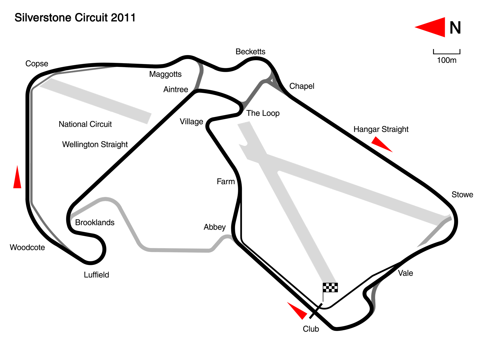 Track diagram of Silverstone Circuit in the UK in 2011 configuration. Made to scale from aerial photographs.